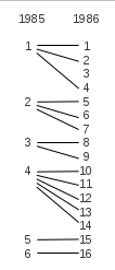 Alice Munro: "The Progress of Love" (1985 / 1986), section variants